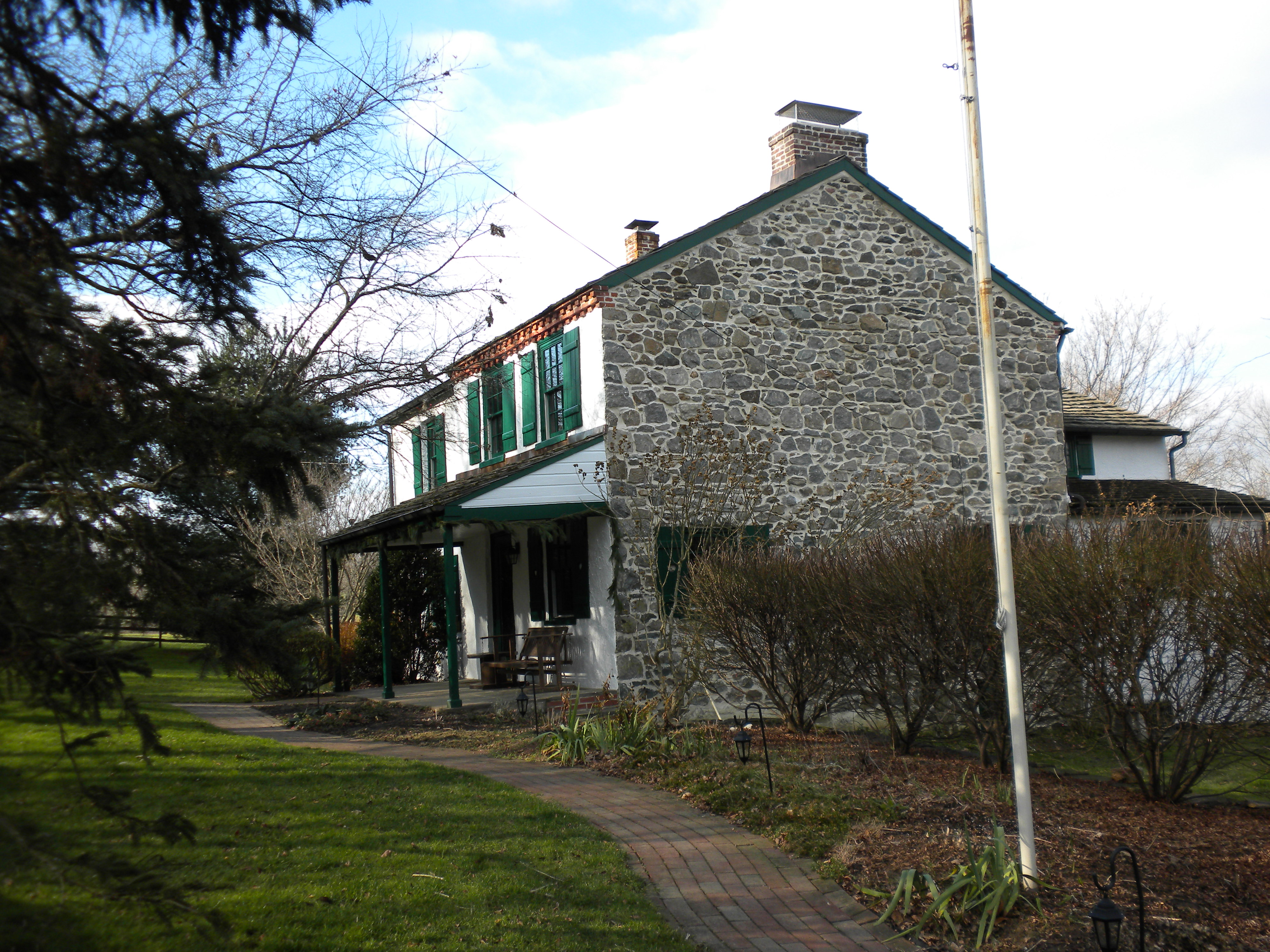 House in the unincorporated area of Northbrook, PA in Chester county. Part of NRHP Historic District. This house is south of the west branch of the Brandywine. This photo is my own work and I donate it to the public domain.